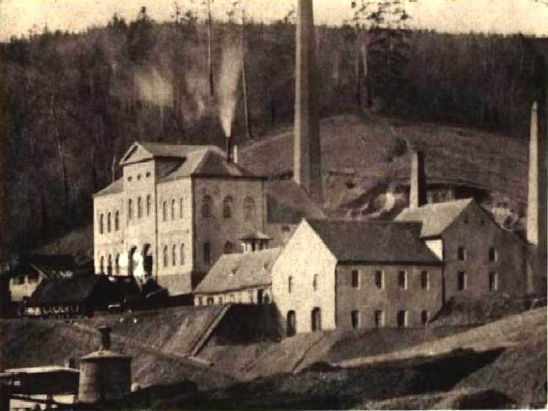 Herring Mine, Zastávka, Czech Republic